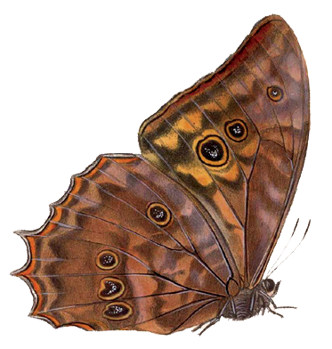 Morpho justitiæ = Morpho theseus justitiae Salvin & Godman, 1868 (underside)